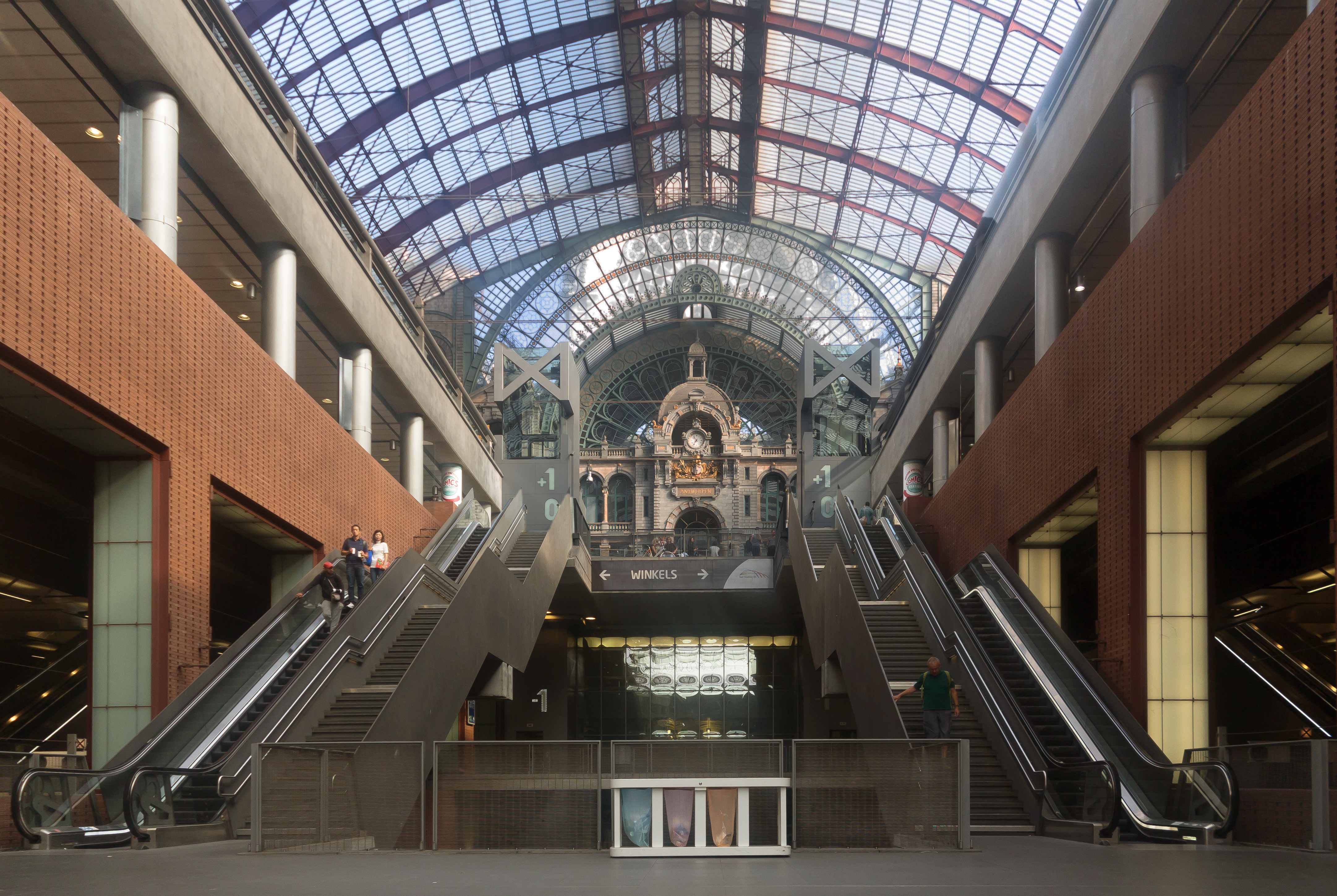 Antwerp, central railway station